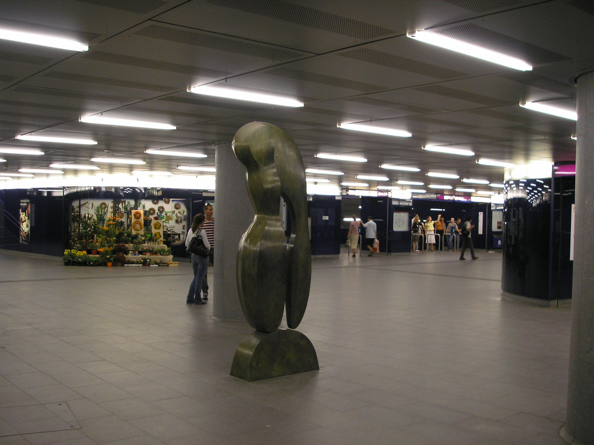 View of the metro station Museumsquartier in Vienna.